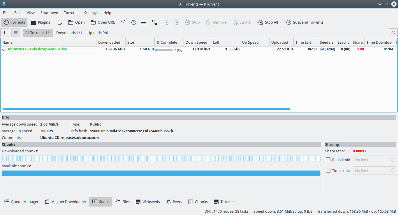 KTorrent 5.1.0 on KDE Plasma 5.10.5 (Qt 5.9.1, KDE Frameworks 5.37.0)